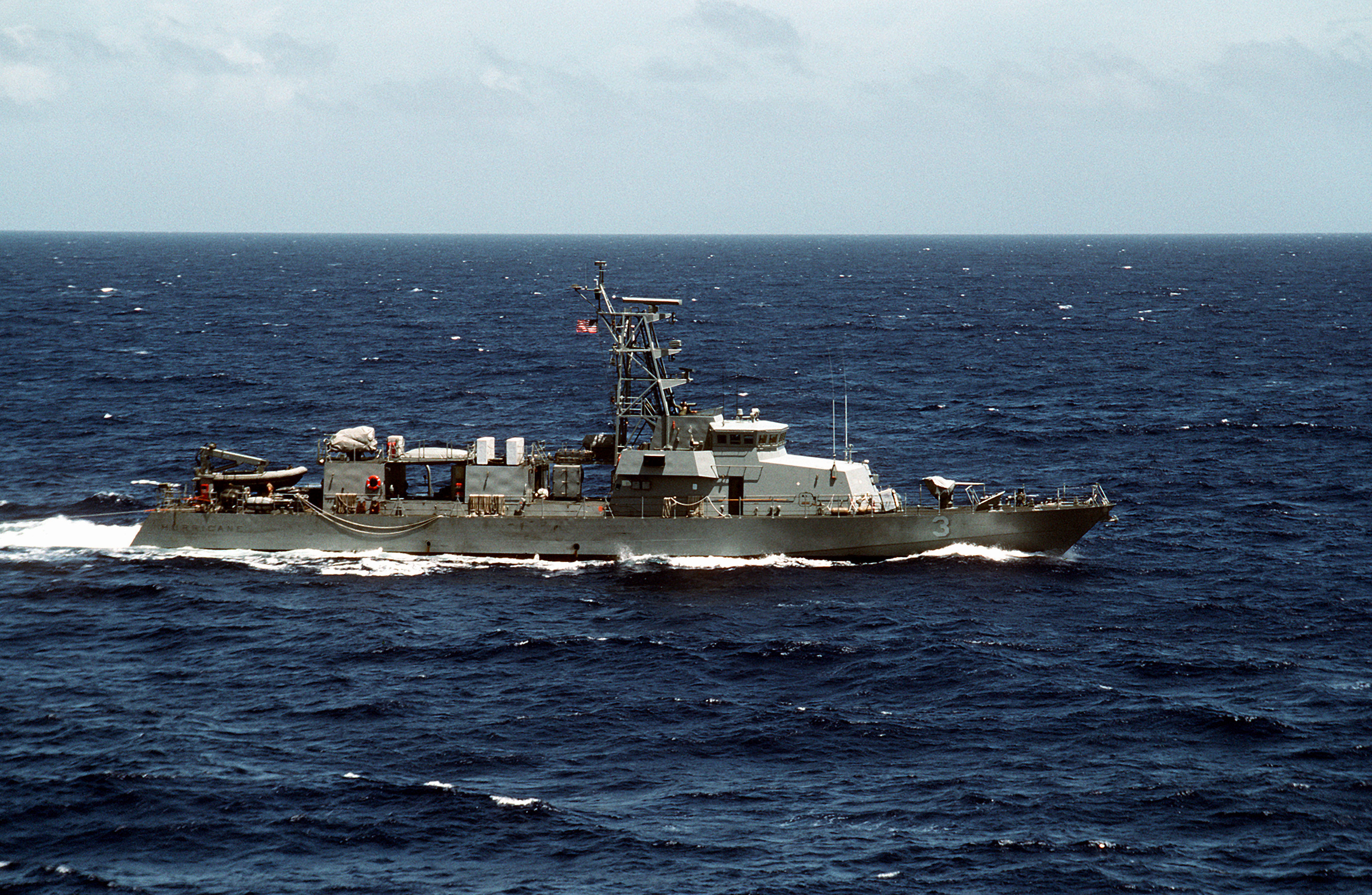 The USS HURRICANE (PC-3) underway off the coast of Haiti operating with other U.S. ships in support of Operation Restore Democracy.